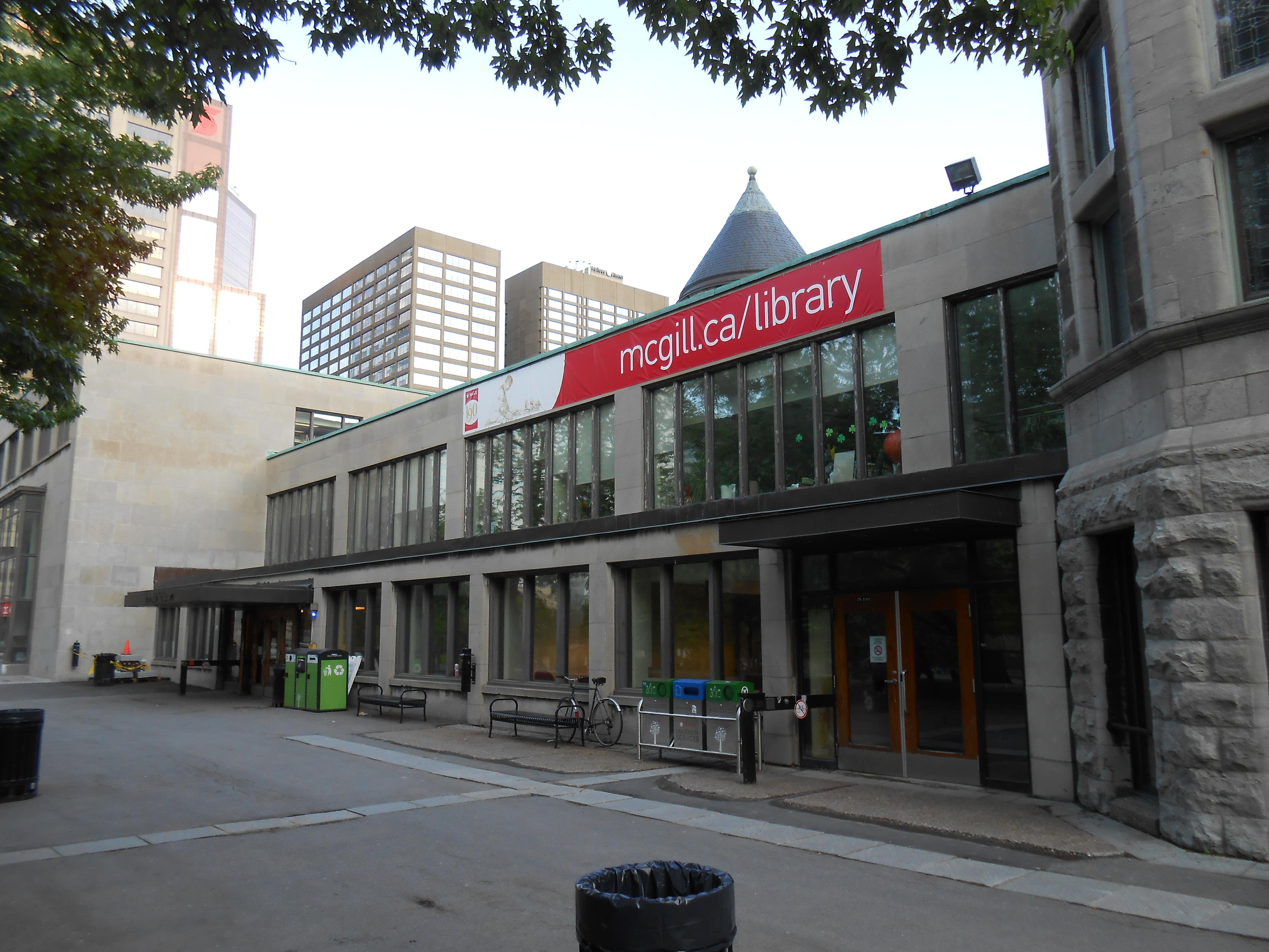 Entrance of McGill Library. Right: Redpath Library Building, McGill University downtown campus, Montreal